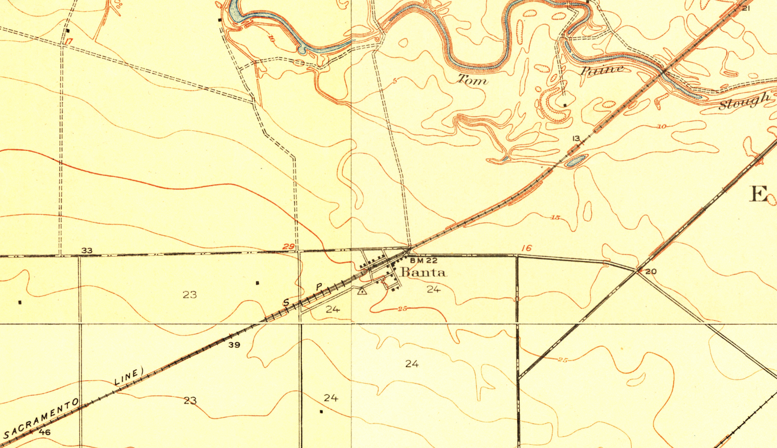 A map of Banta, California. The map is a composite of four historical USGS quadrant maps: Union Island (1914, top left), Tracy (1916, bottom left), Vernalis (1915, bottom right), and Lathrop (1915, top right).